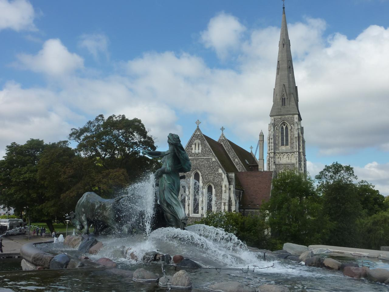 The Gefion Fountain with St. Alban's English Church as a backdrop in Copenhagen, Denmark